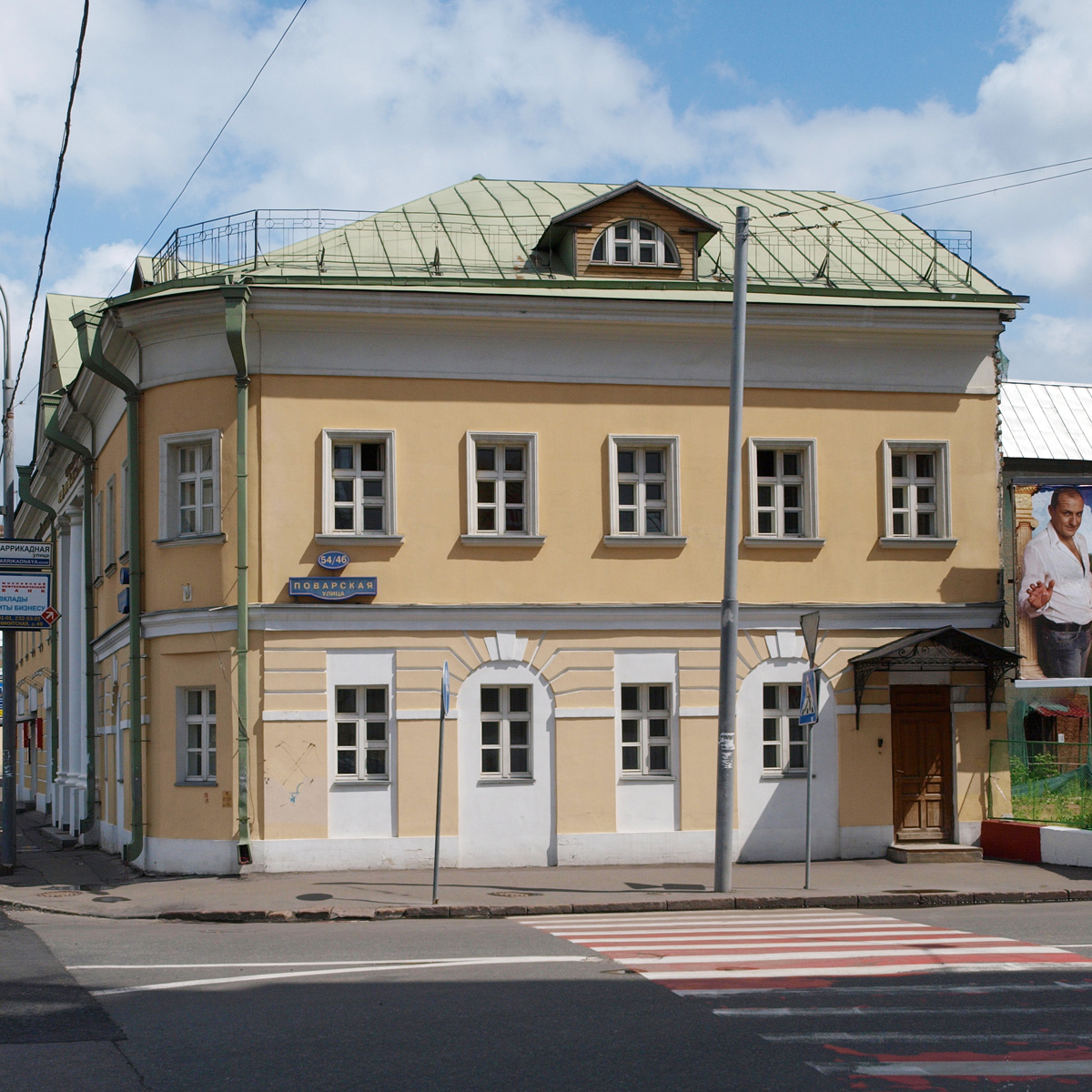 Povarskaya Street, Moscow.